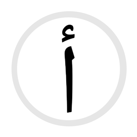 HS Letter (arabic alphabet)